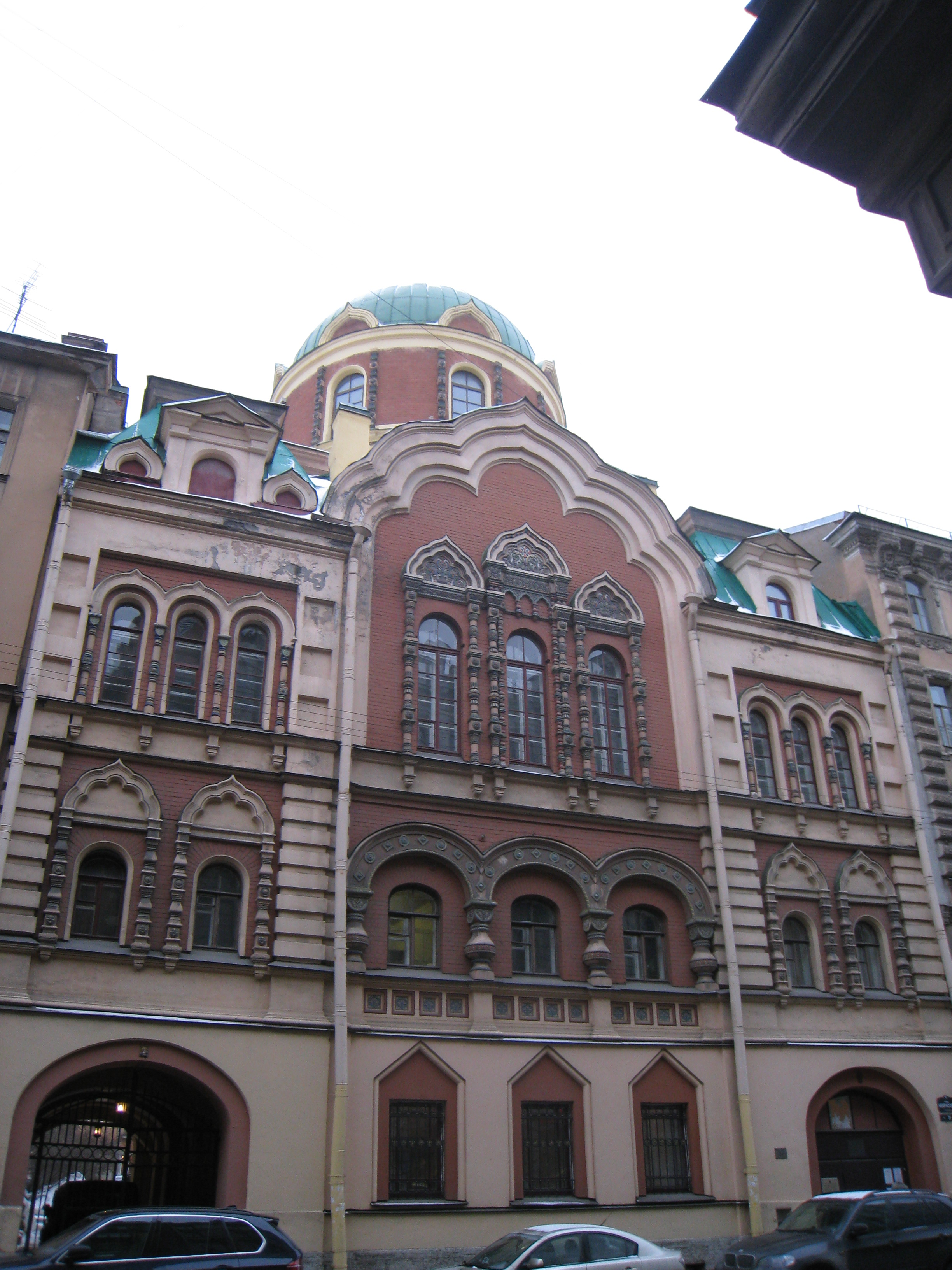 Подворье Леушинского монастыря в Санкт-Петербурге